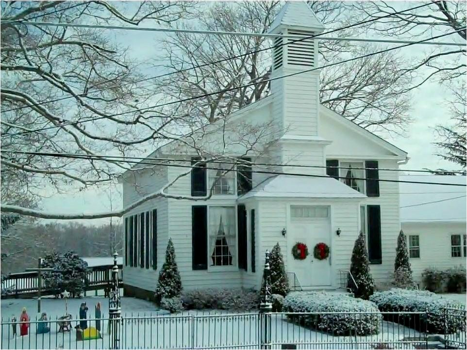 A beautiful wintry scenic picture of the Church after a snow storm in January 2011.